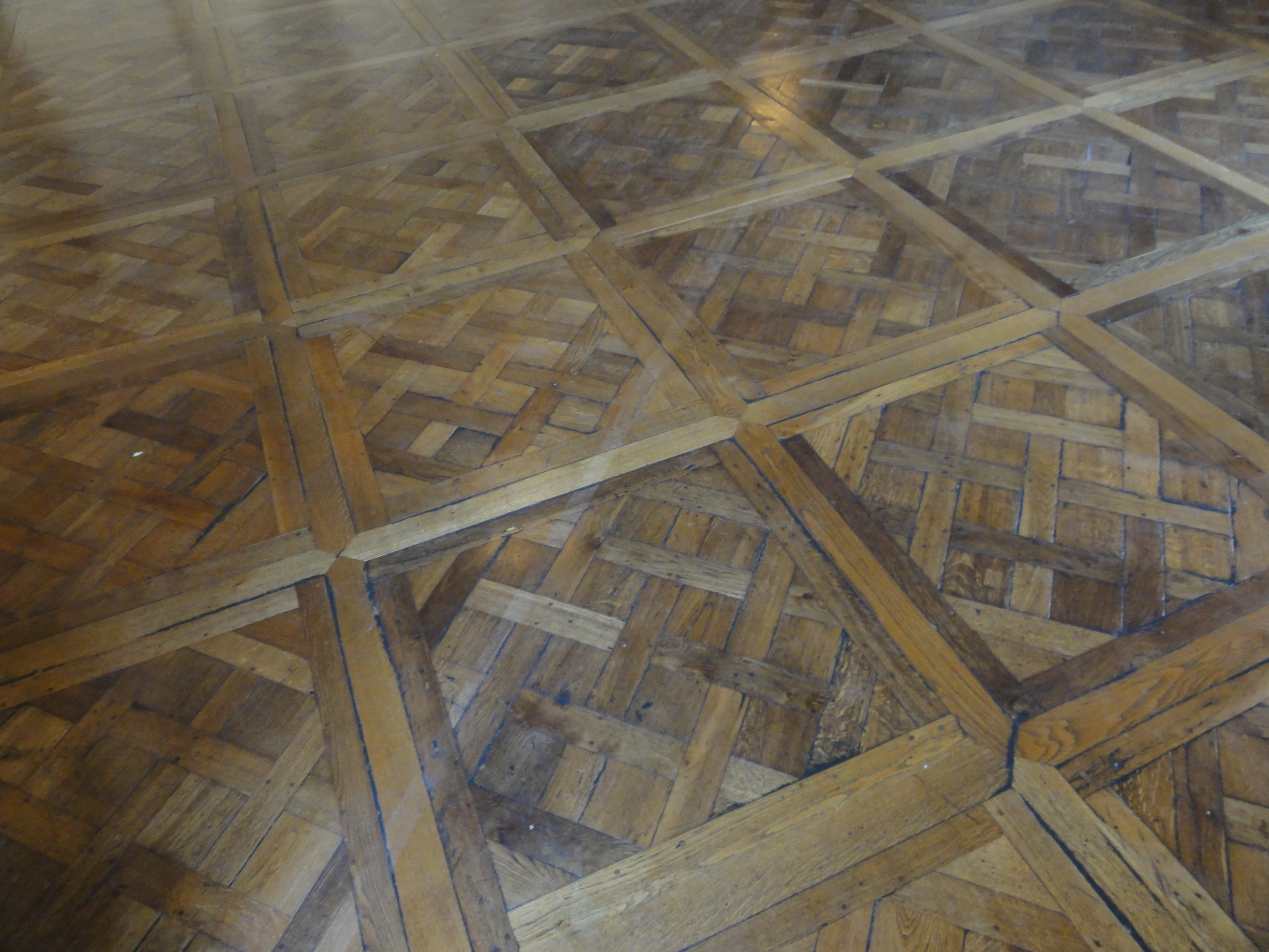 Versailles wooden flooring style - Château de Versailles, salle des Gardes du Roi